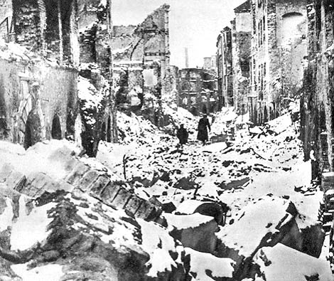 Destroyed Warsaw in 1945. Piwna street.